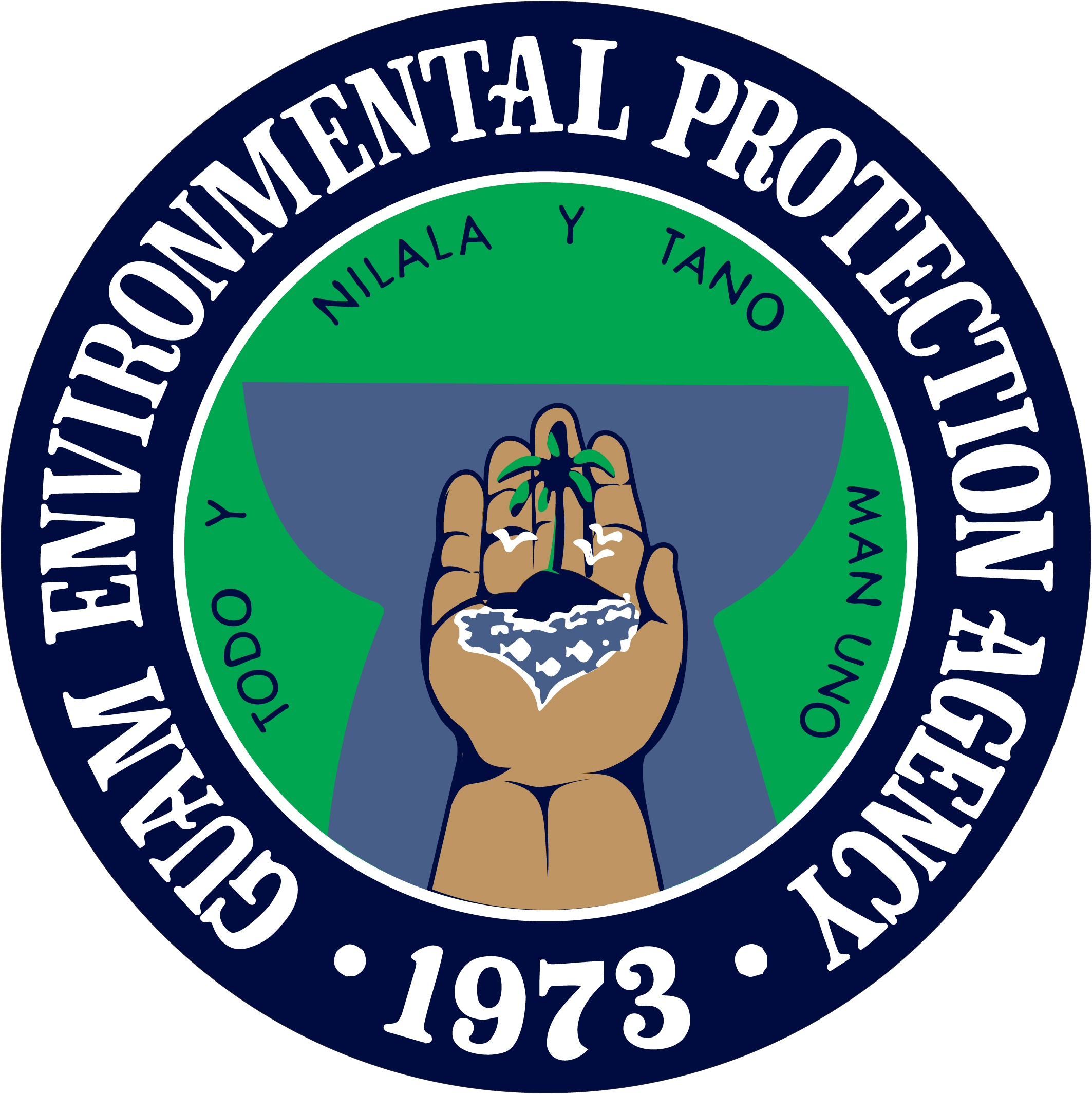 The official seal of the Guam Environmental Protection Agency was painted in 1973 and is used on official documents bearing the Administrator's signature.